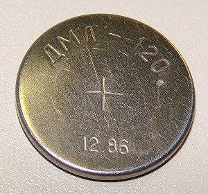 Russian lithium element for the Elektronika MK-51 calculator